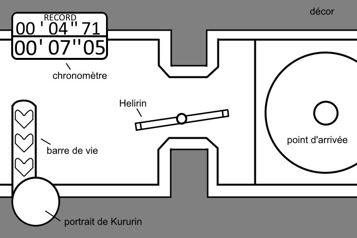 Interface of the game Kuru Kuru Kururin